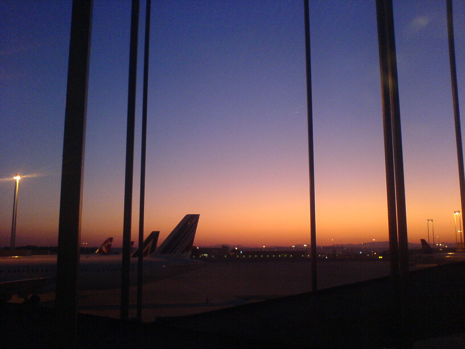 Sunrise at Fiumicino International airport, Italy.